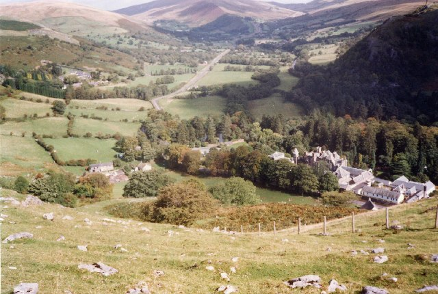 Craig Y Nos Castle. Swansea valley